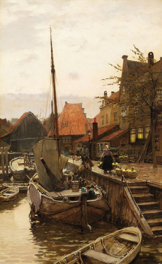 Havenscene